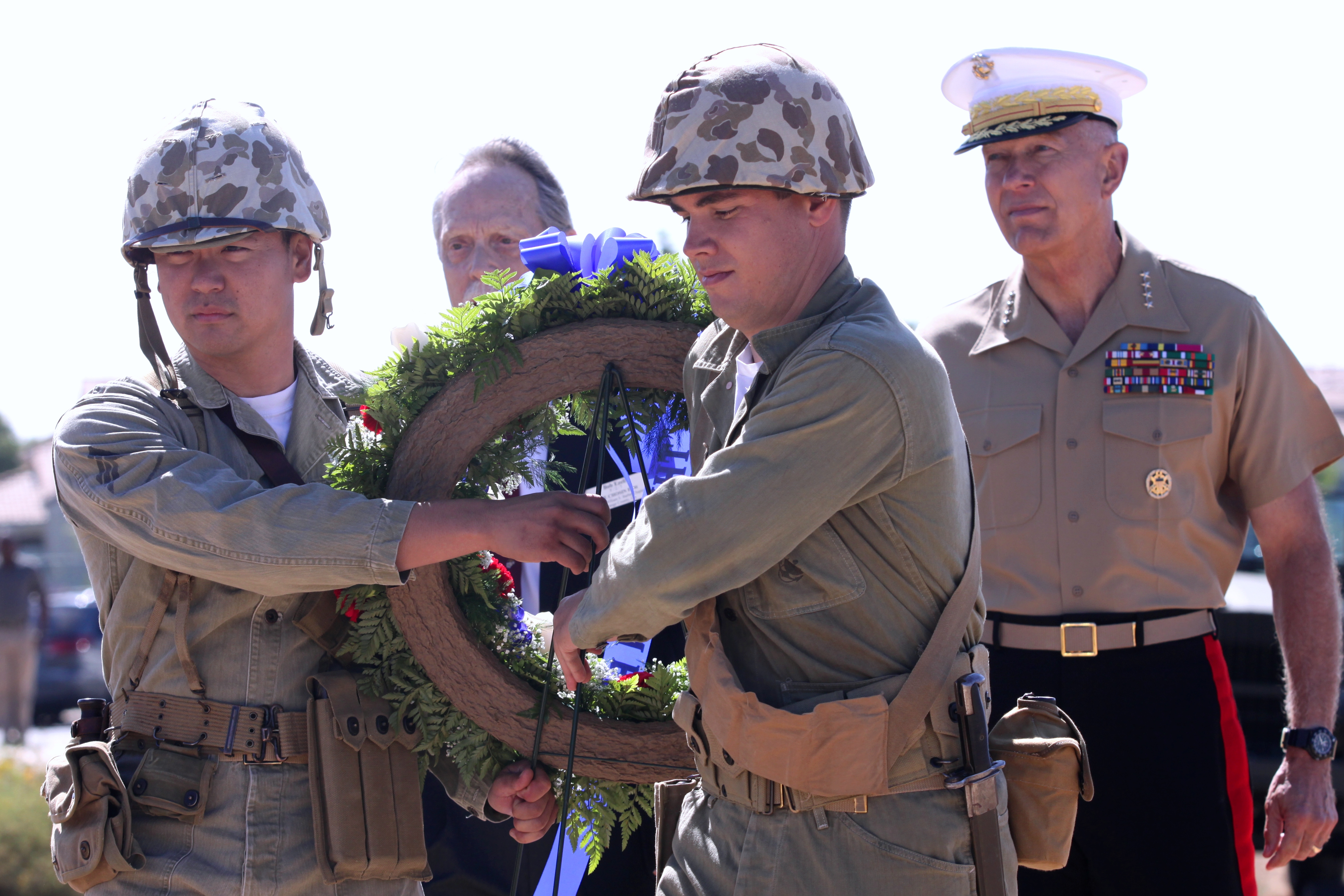 The 34th Commandant of the Marine Corps, Gen. James T. Conway walks alongside Marines, dressed in Korean War era uniforms, who carry a wreath to be placed in honor of the “Chosin Few" during a monument dedication ceremony at the Camp Pendleton South Mesa Club, Sept. 15. The ceremony was held in honor of the 60th anniversary of Operation Chromite; the dangerous and difficult amphibious landing at Inchon, Korea, Sept. 15, 1950.